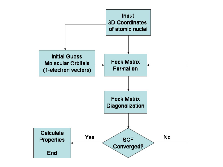 Simplified Hartree–Fock procedural flowchart Created by me.